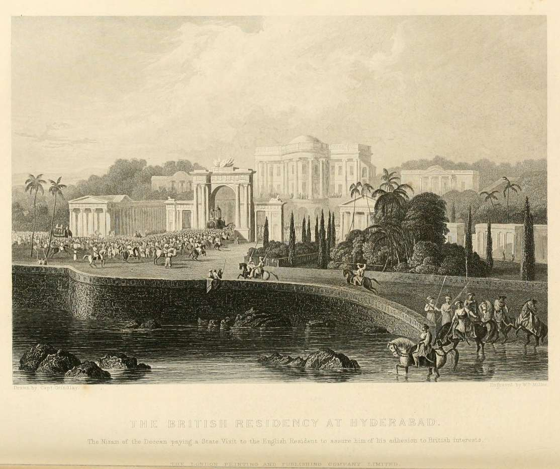 "The British Residency at Hyderabad," from vol. 3 of 'The Indian empire' by Robert Montgomery Martin, c.1860 (downloaded Jan. 2009)